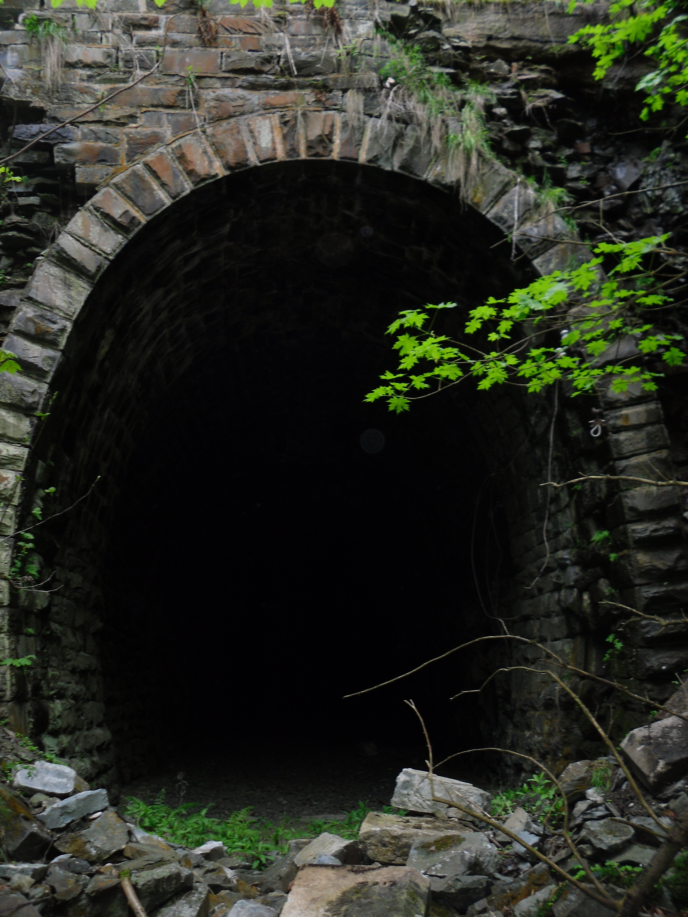 Northportal of the Kesselfelstunnel